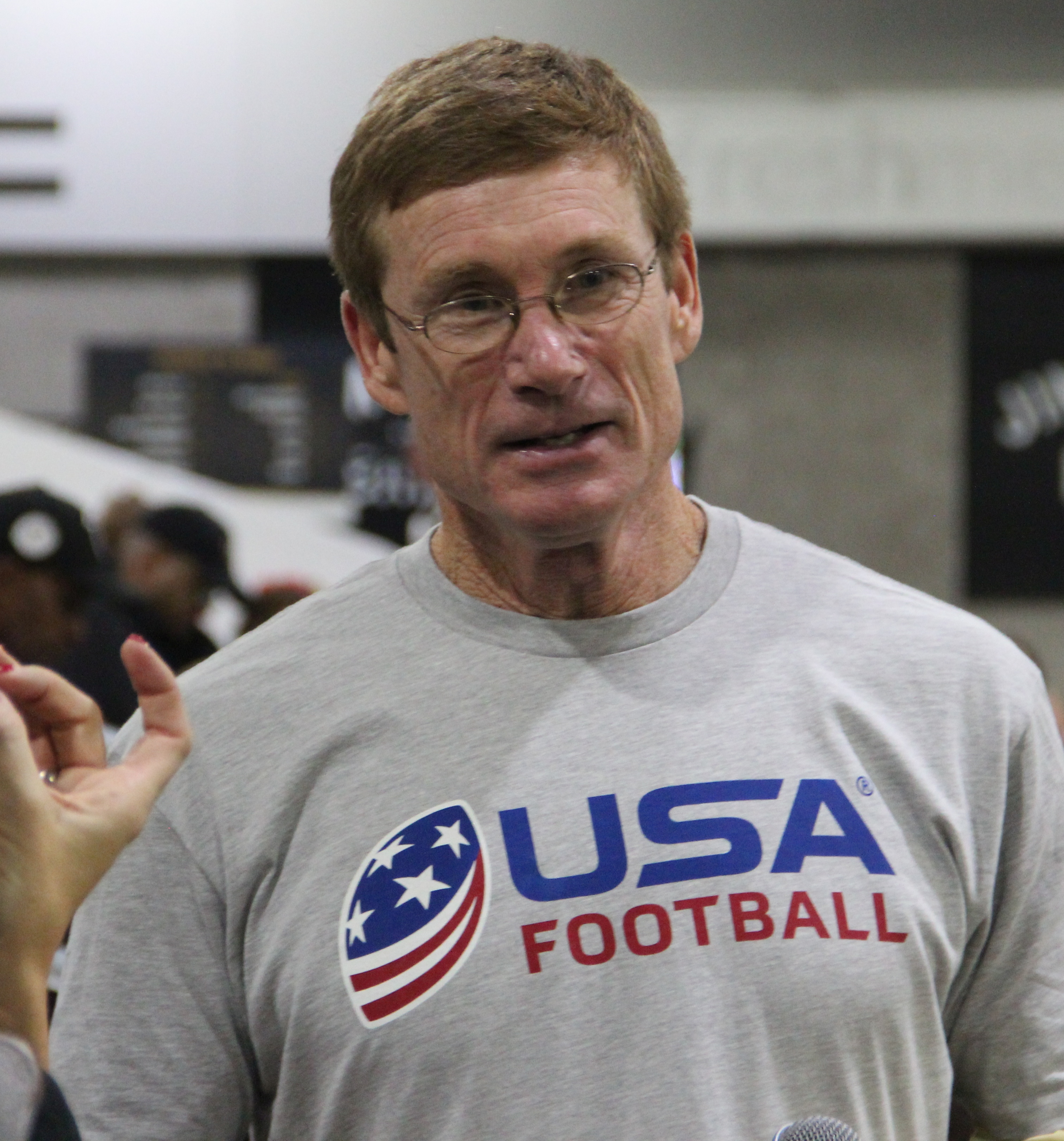 Buddy Curry at the 2018 College Football Playoff National Championship Playoff Fan Central